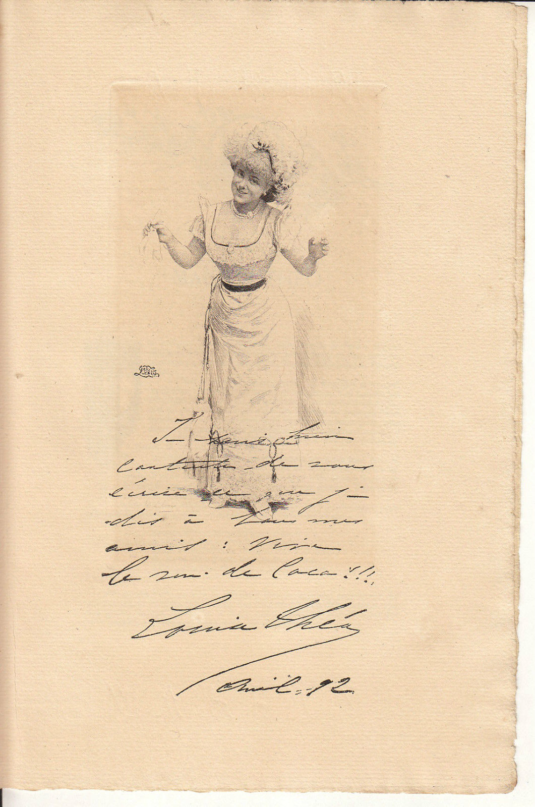 Café-concert singer Louise Théo, photograph with dedication